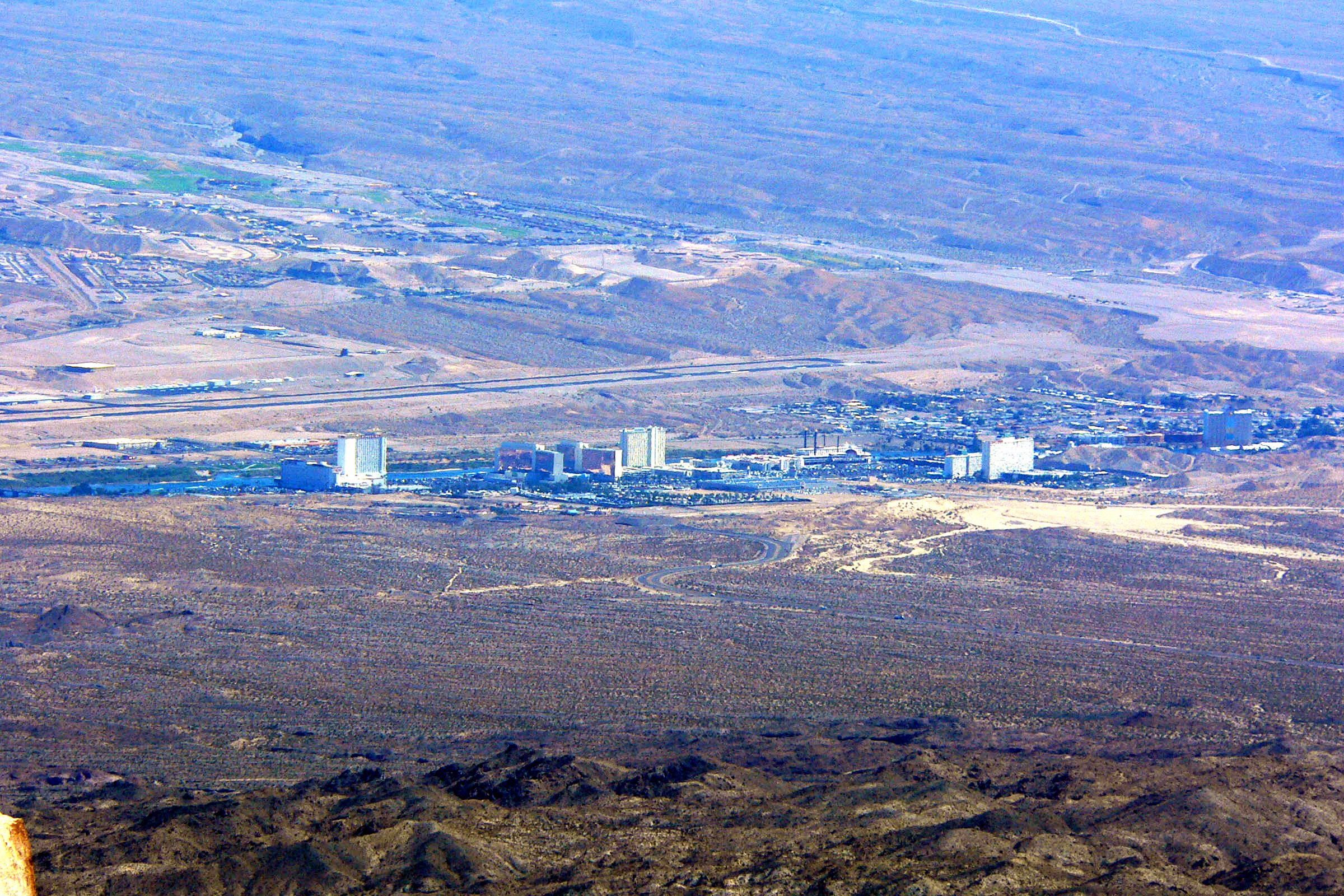 Laughlin, Nevada seen from Spirit Mountain, Newberry Mountains, southern Nevada